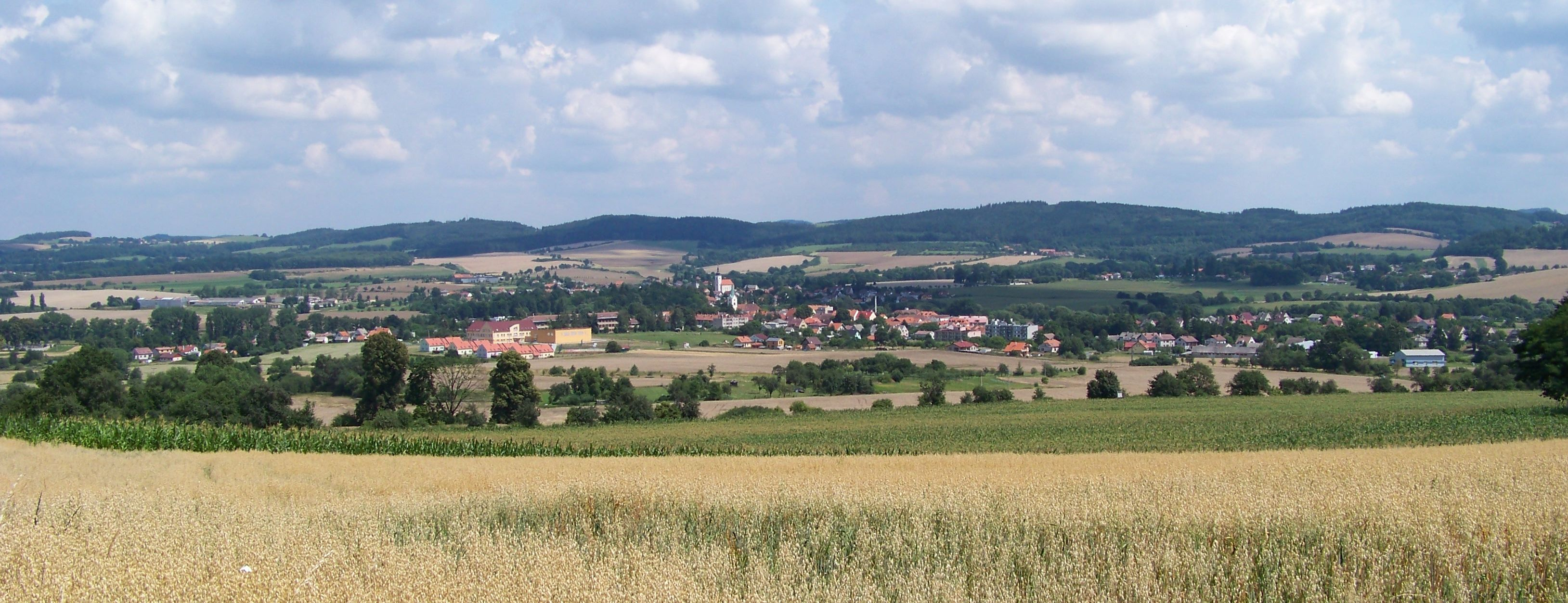 Sedlec-Prčice, Příbram District, Central Bohemian Region, the Czech Republic.